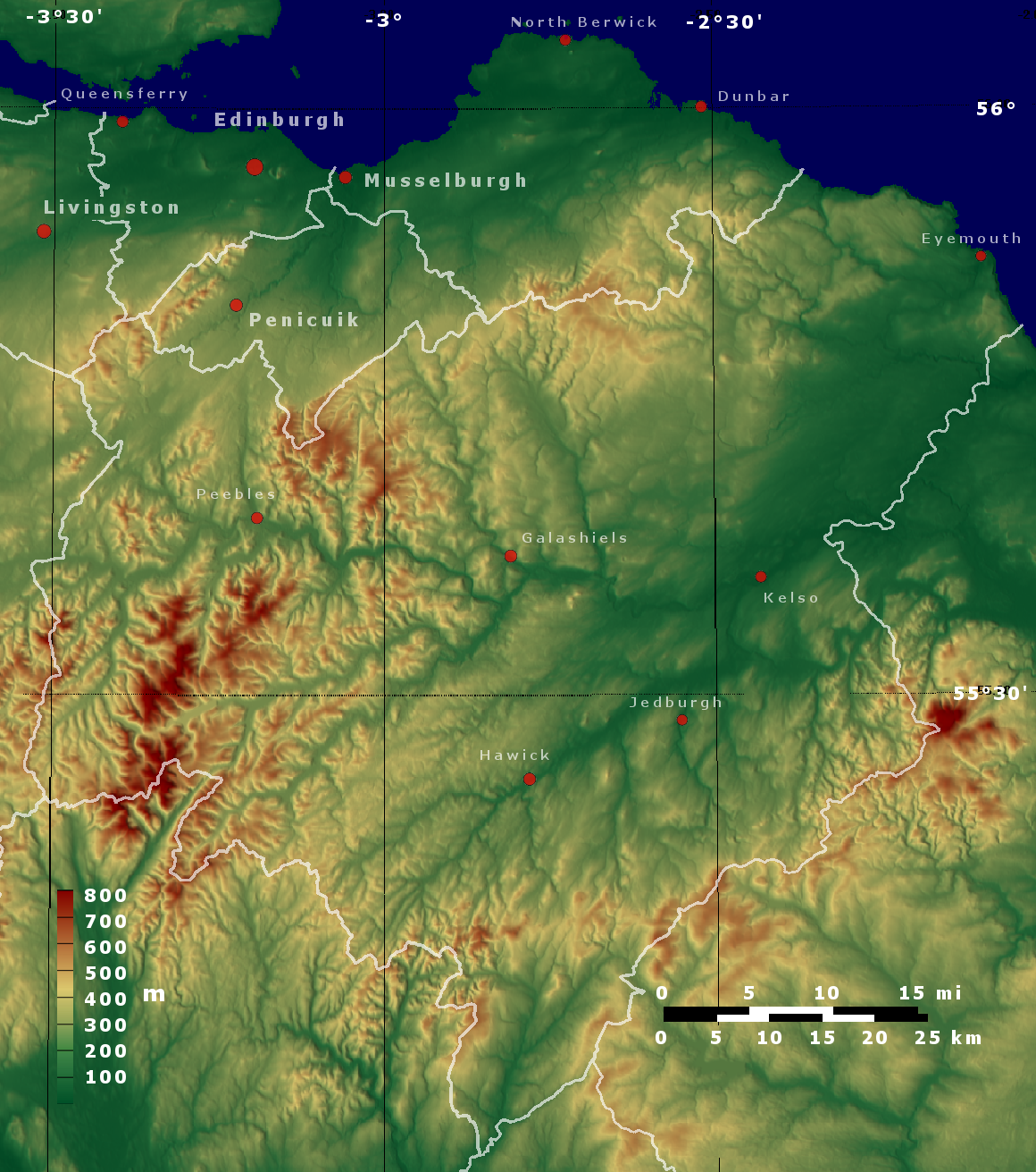 Map created with 3DEM from SRTM (